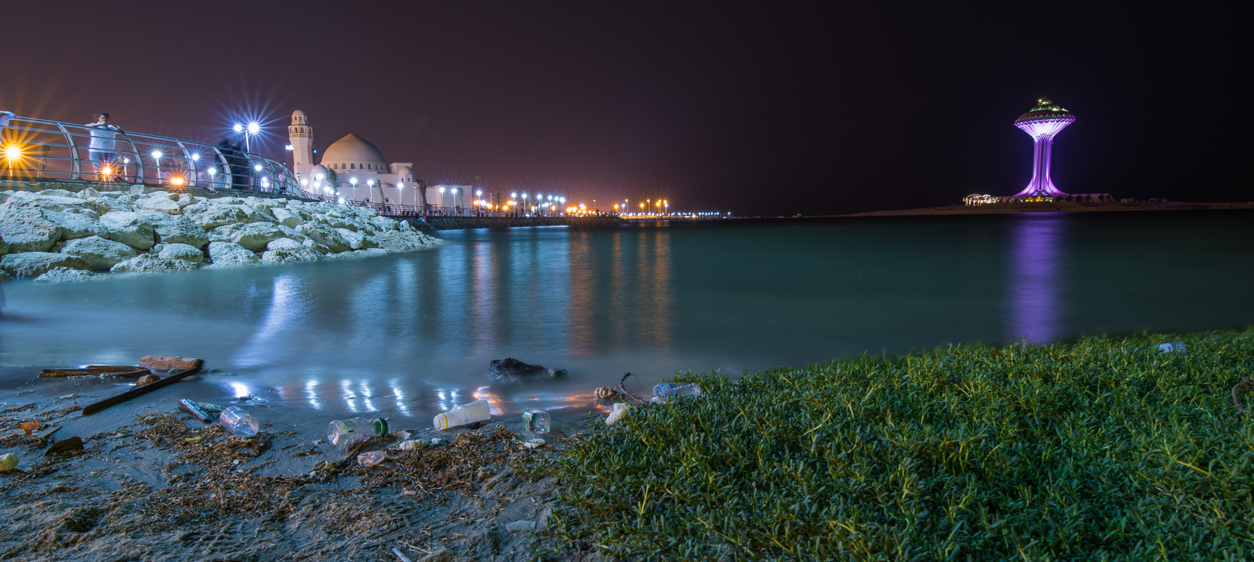 Al Khobar Corniche, KSA